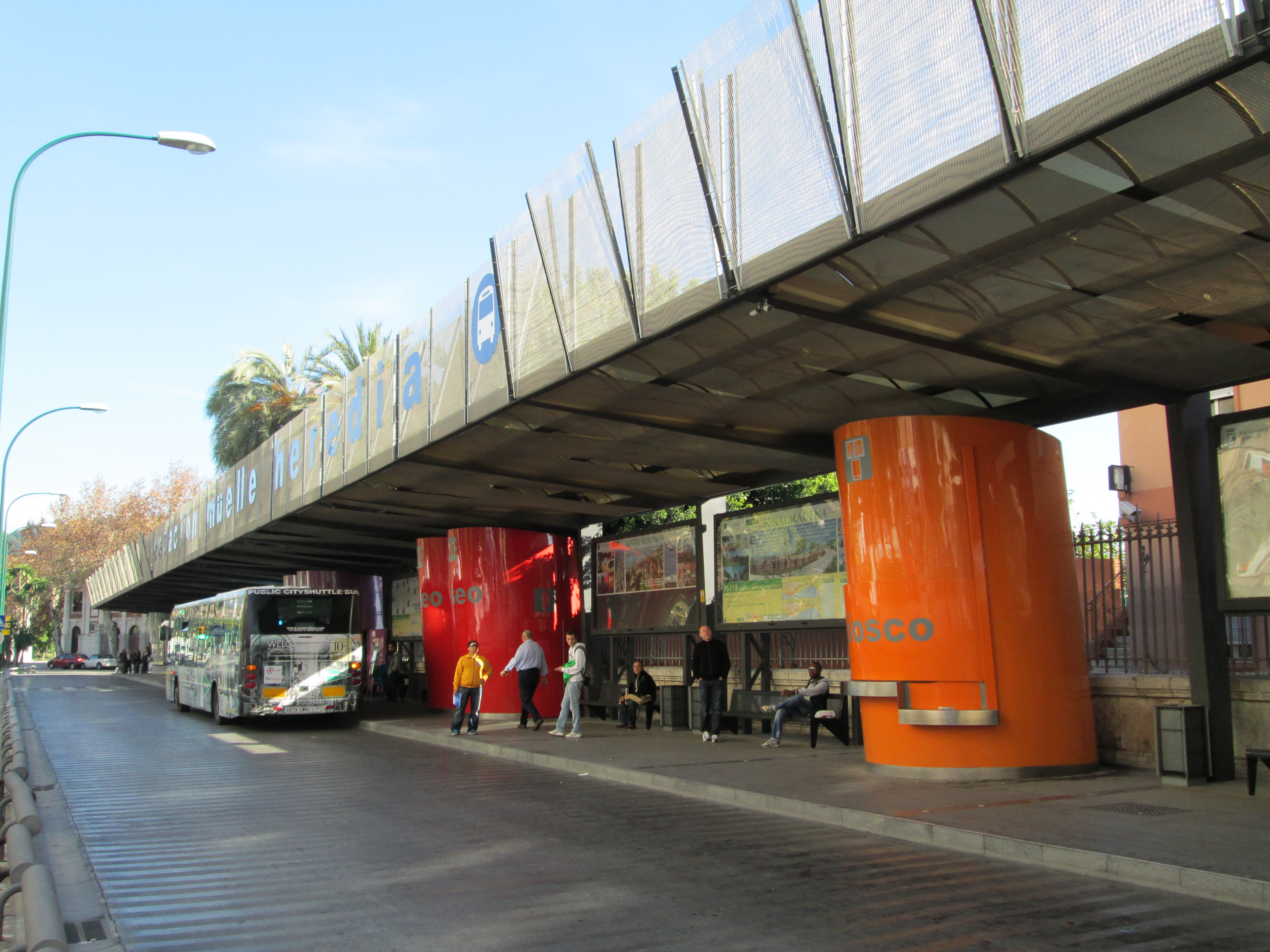 Estación de Muelle Heredia